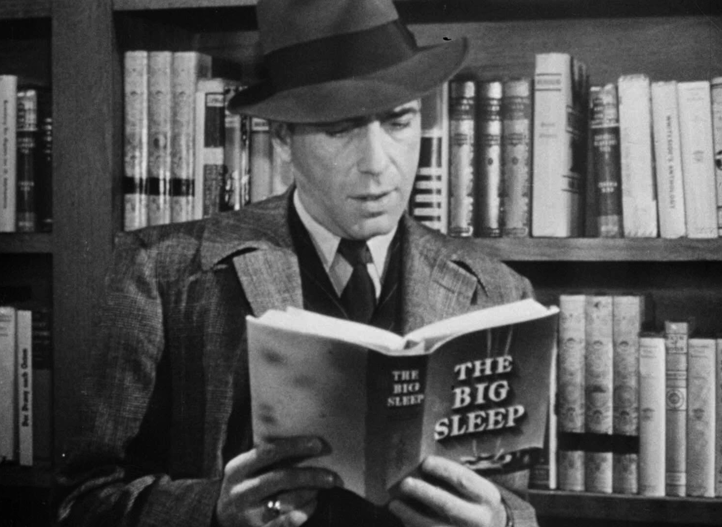 Screenshot from the film trailer for The Big Sleep, featuring Humphrey Bogart